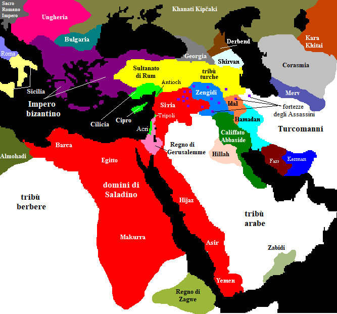 This map has been uploaded by Electionworld from to enable the Wikimedia Atlas of the World . Original uploader to was Briangotts, known as Briangotts at . Electionworld is not the creator of this map. Licensing information is below. The Middle East, c. 1190. Boundaries from Atlas of World History by John Haywood